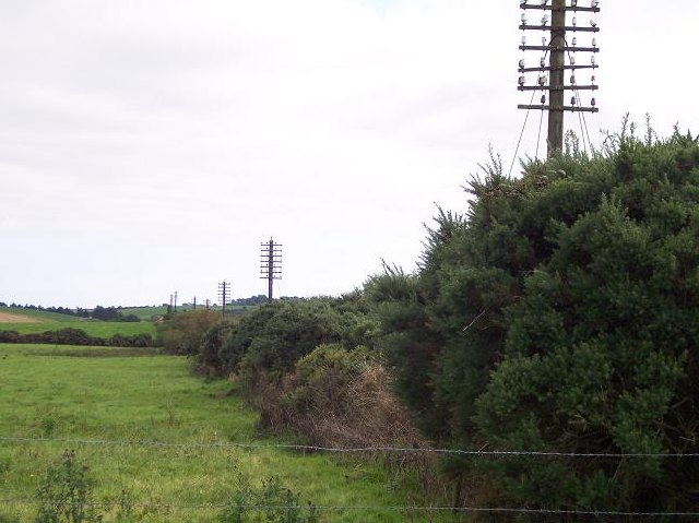 Disused Railway near Ballinhassig, Co. Cork. Ten miles from Cork, the Cork Bandon & South Coast Railway entered the Owenboy Valley and turned west. This is the old railway embankment, complete with telegraph poles, half a mile west of Ballinhassig station.